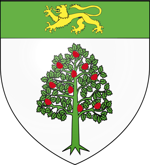 Coat of arms of the Murphy.